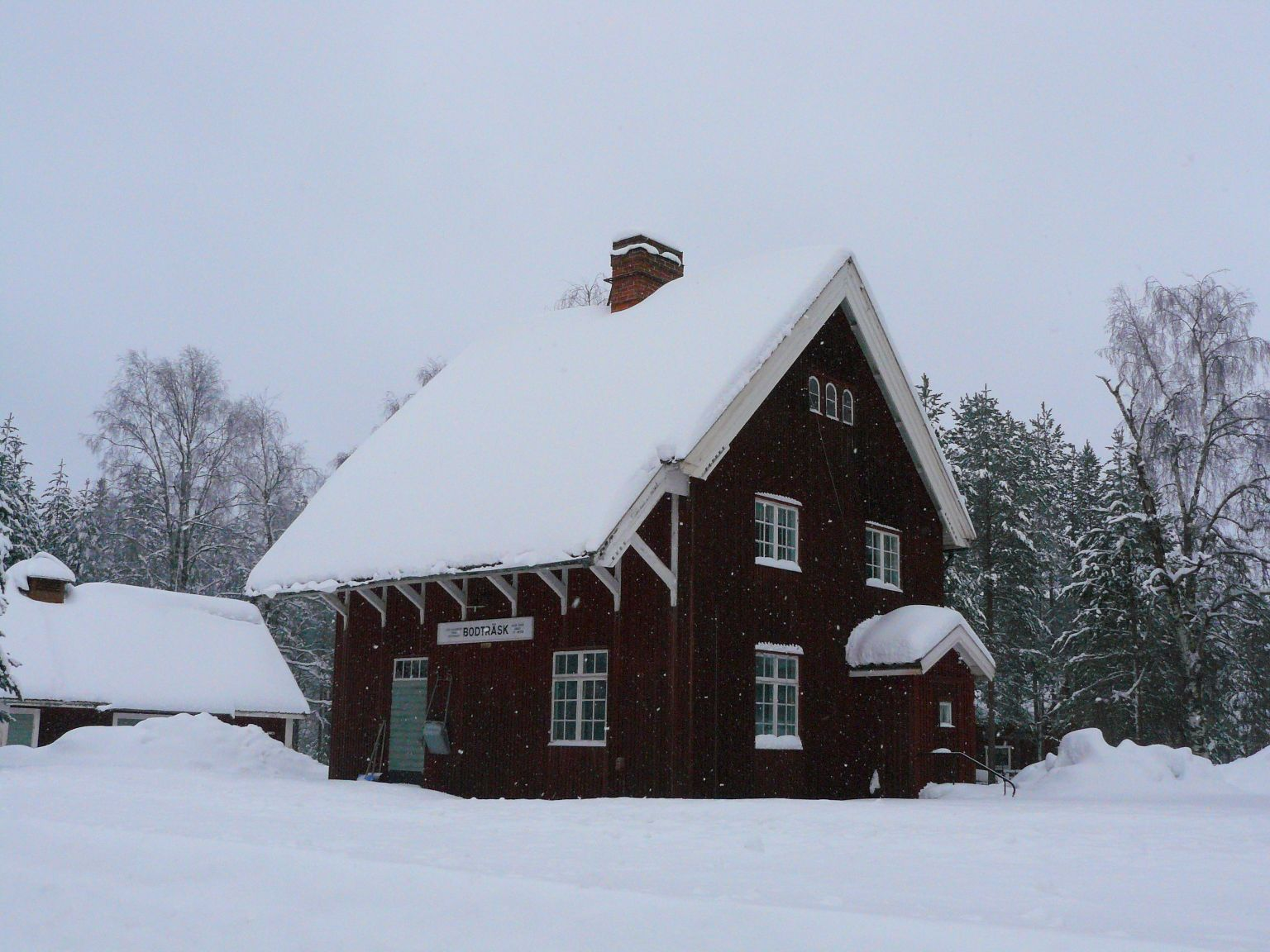 Bodträsk railway station, Kalix kommun, Sweden.